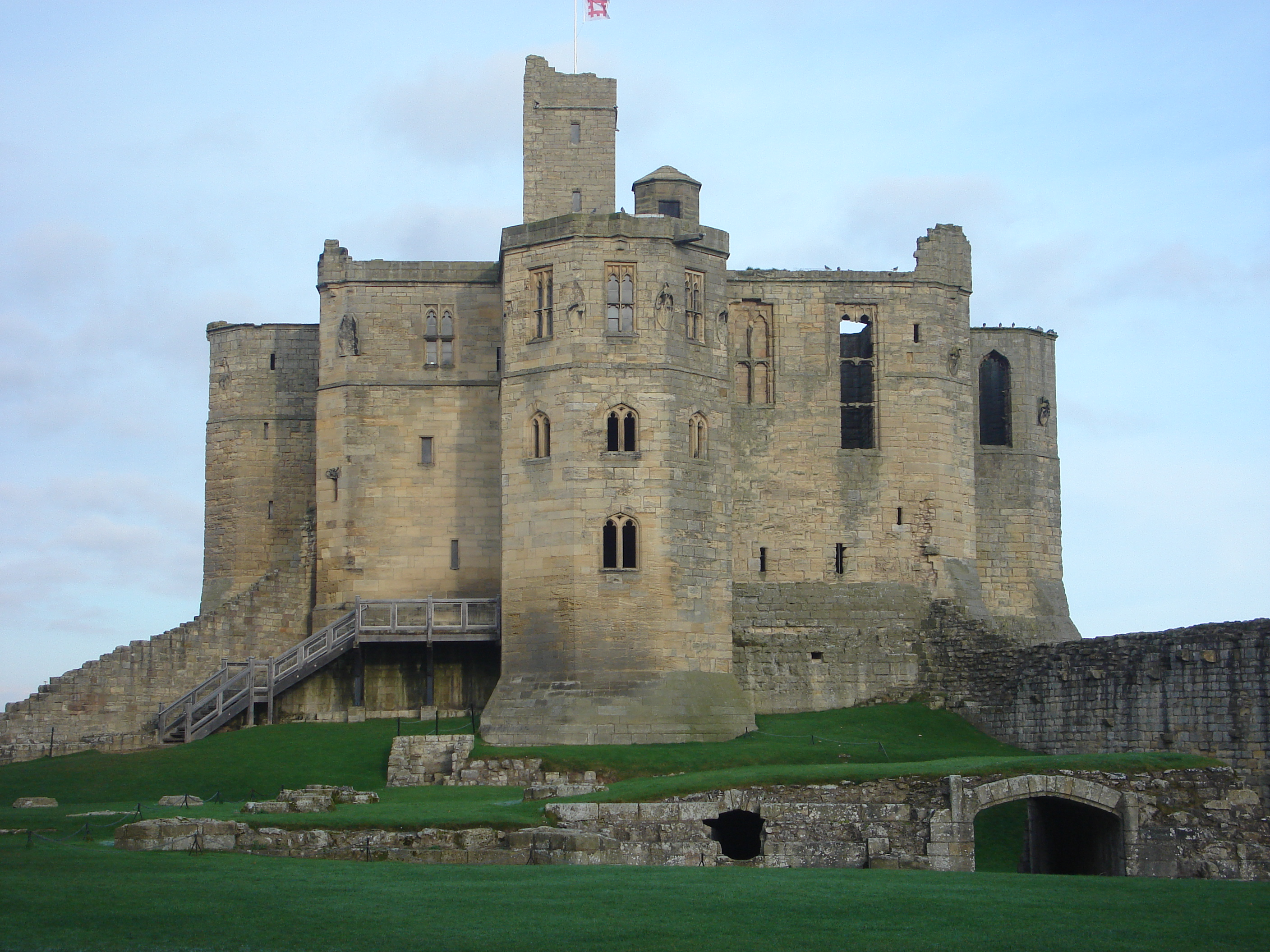 Warkworth Castle, Northumbria, England in November 2008.